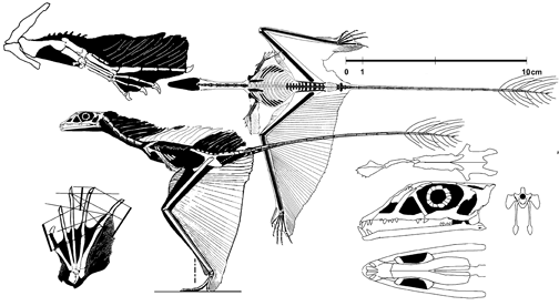 Sharovipteryx mirabilis David Peters